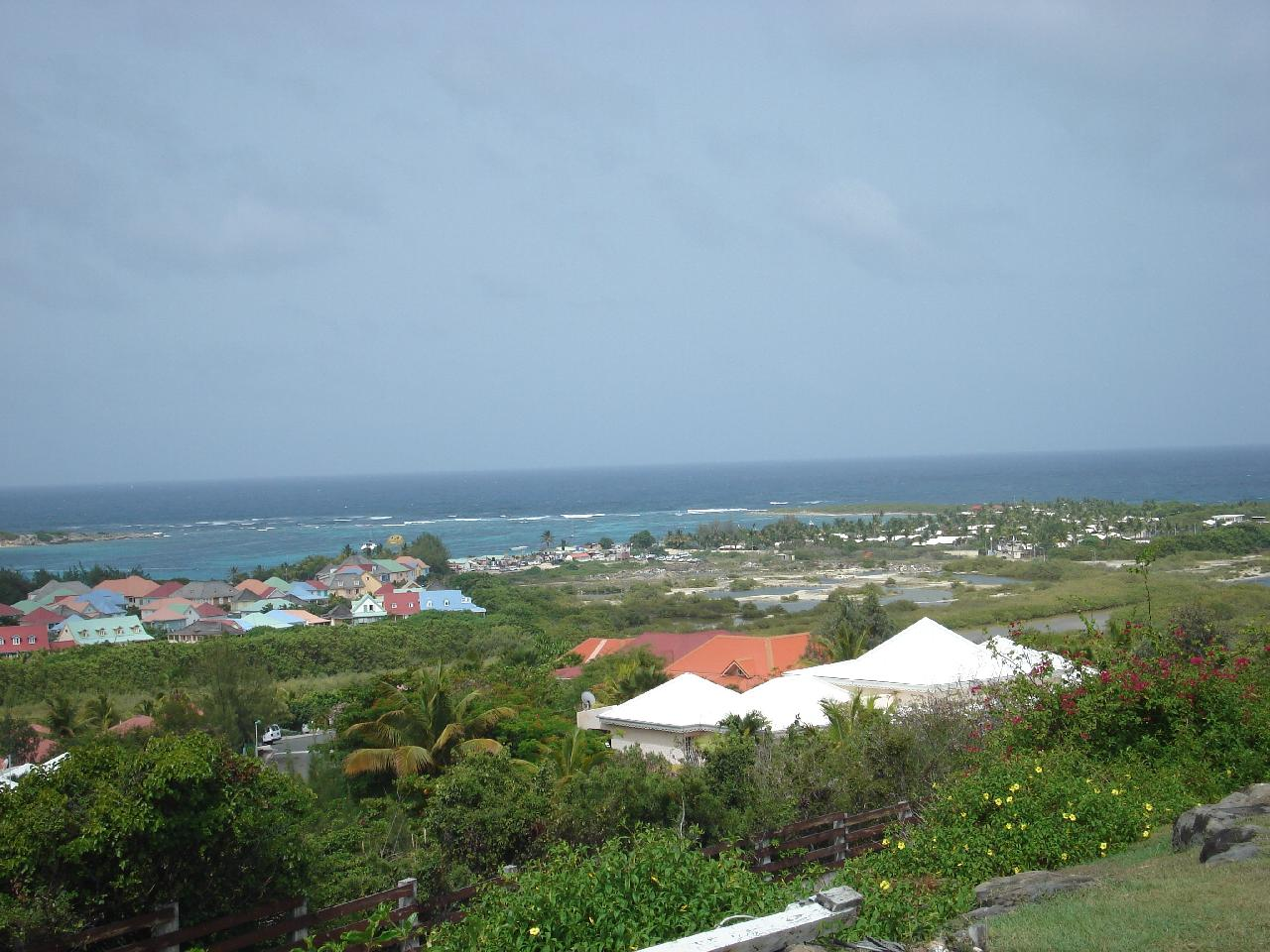 View from a restaurant on the way to Marigot, St. Martin, French Antilles.